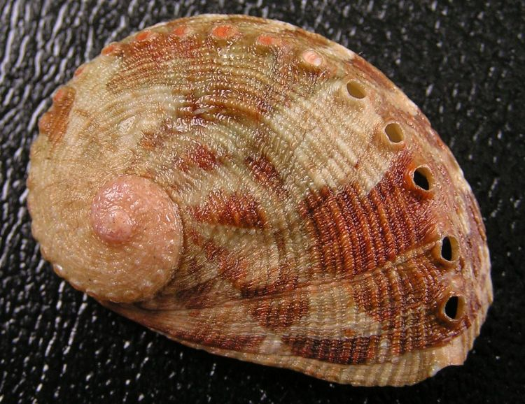 Dorsal view of a shell of Haliotis coccoradiata. Own Collection. Australia, New South Wales, Sydney. Under rock.